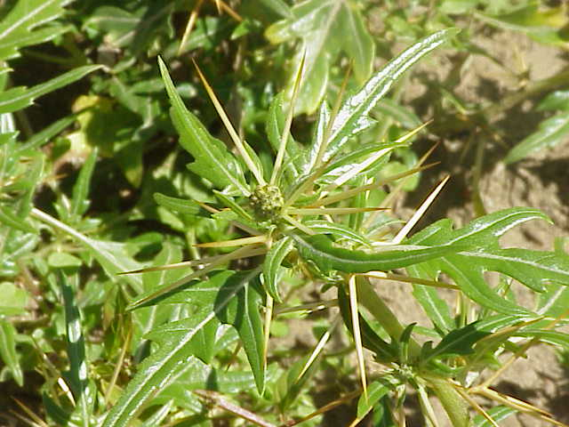 Species: Xanthium spinosum Family: Compositae Image No. 1